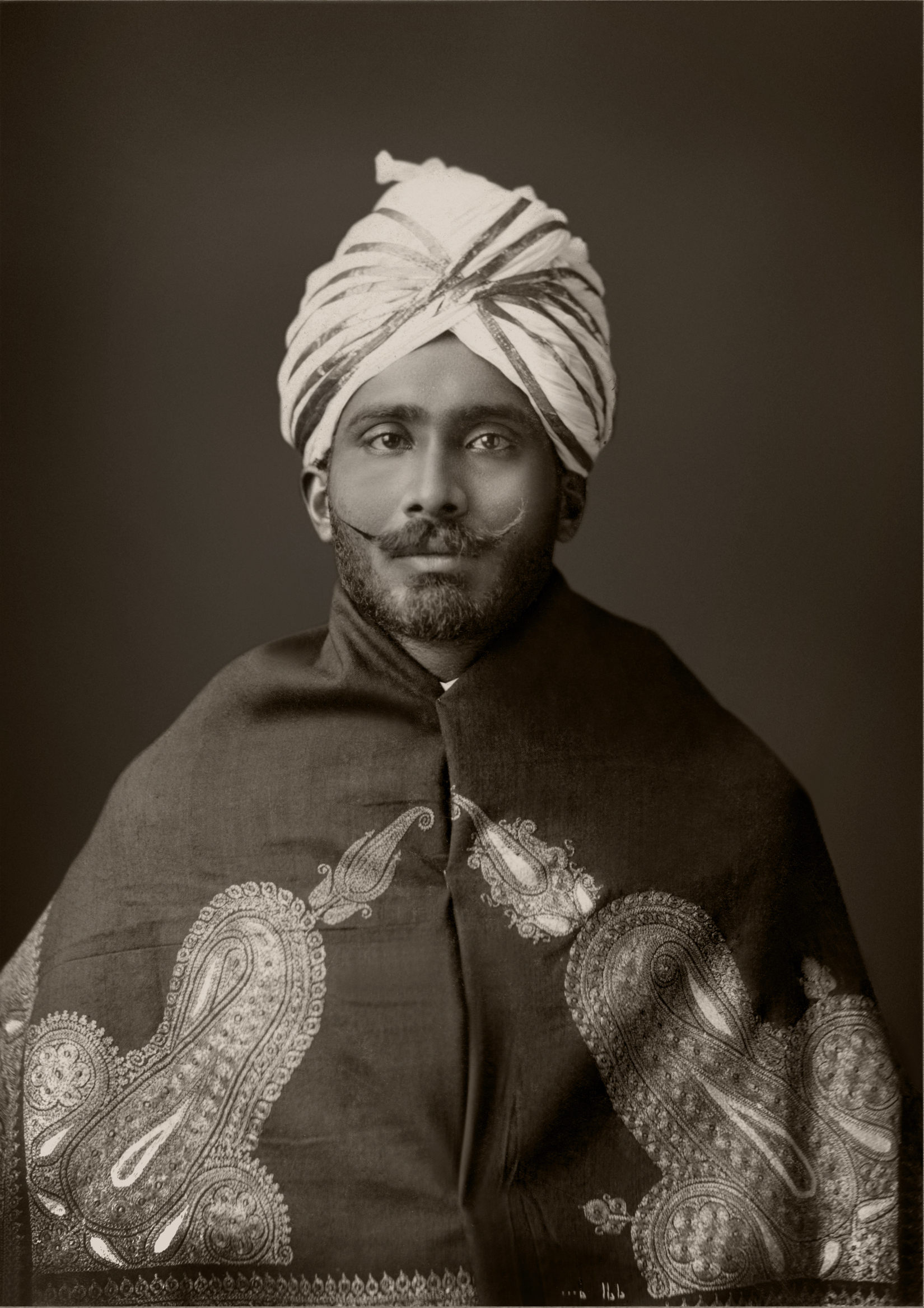 Portrait of Sufi mystic Hazrat Inayat Khan, one of the first teachers of Sufism in the West, and founder of the Sufi Movement and affiliated tariqa. The portrait was taken at Taber Stanford studios in San Francisco in 1911 during an early tour of the United States.